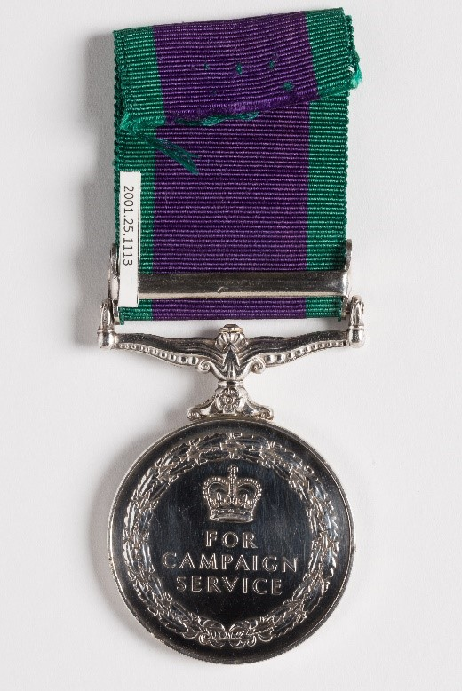 General Service Medal 1962- (ERII) Medal awarded to 535261 Cpl. Tunui Danny Waretini circular silver medal, 36mm diameter, ornate suspension, one bar – MALAY PENINSULA, with ribbon obverse- effigy of Queen Elizabeth II reverse- standing winged figure of Victory in a Corinthian helmet and carrying a trident, bestowing a wreath on the emblems of the Army (the sword) and the RAF (the wings) inscr rim- 535261 CPL. T. WARETINI RNZIR ribbon- grosgrain ribbon, 32 mm wide, purple with a central green stripe